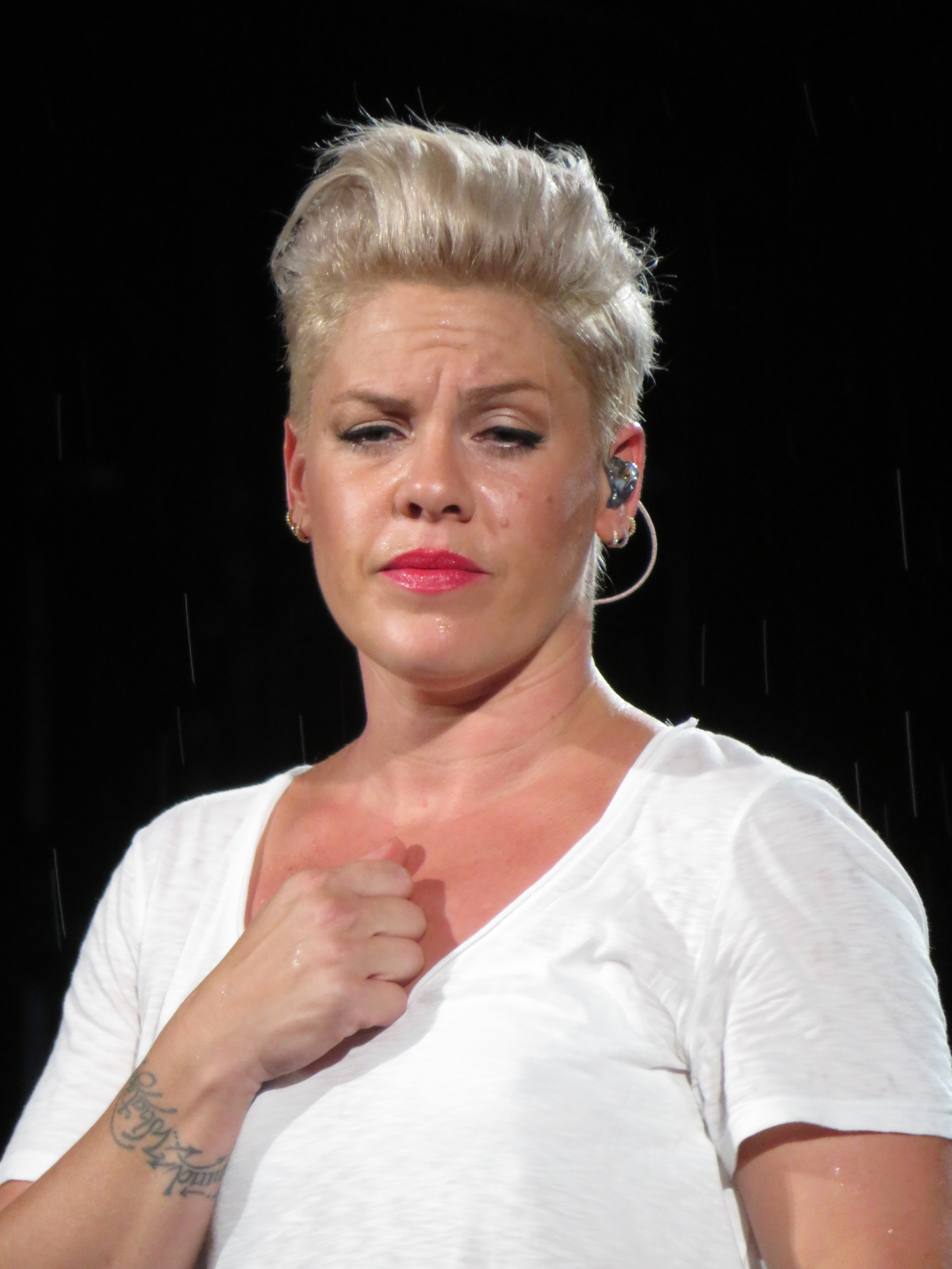 Pink, 2019-07-26, Olympiastadion, Munich, Germany